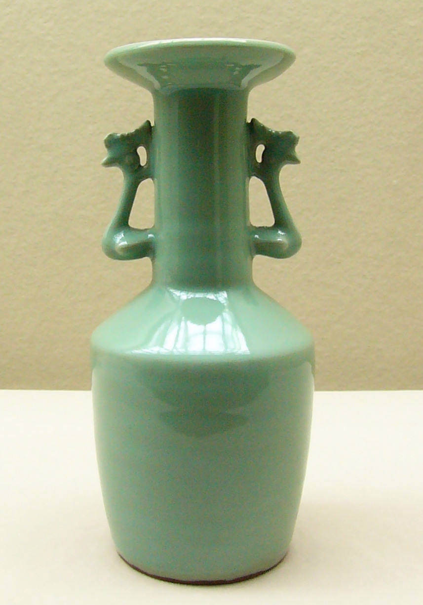 Vase with Phoenix Handles, Celadon 28.8cm height, 12th century, Southen Song-Yuan, The Museum of Oriental Ceramics, Osaka, Former ATAKA collection